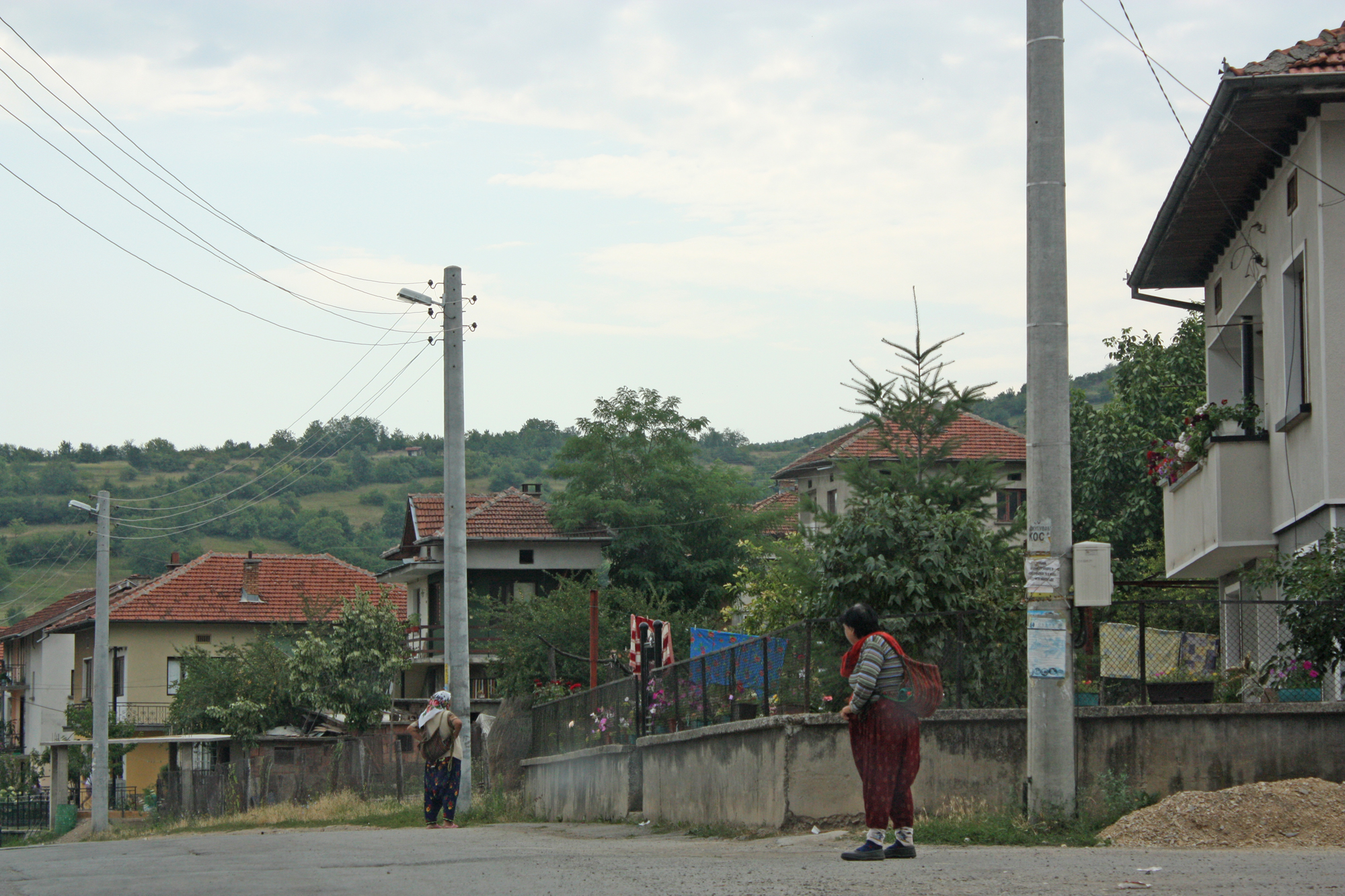 A street with elderly wimen in local dresses